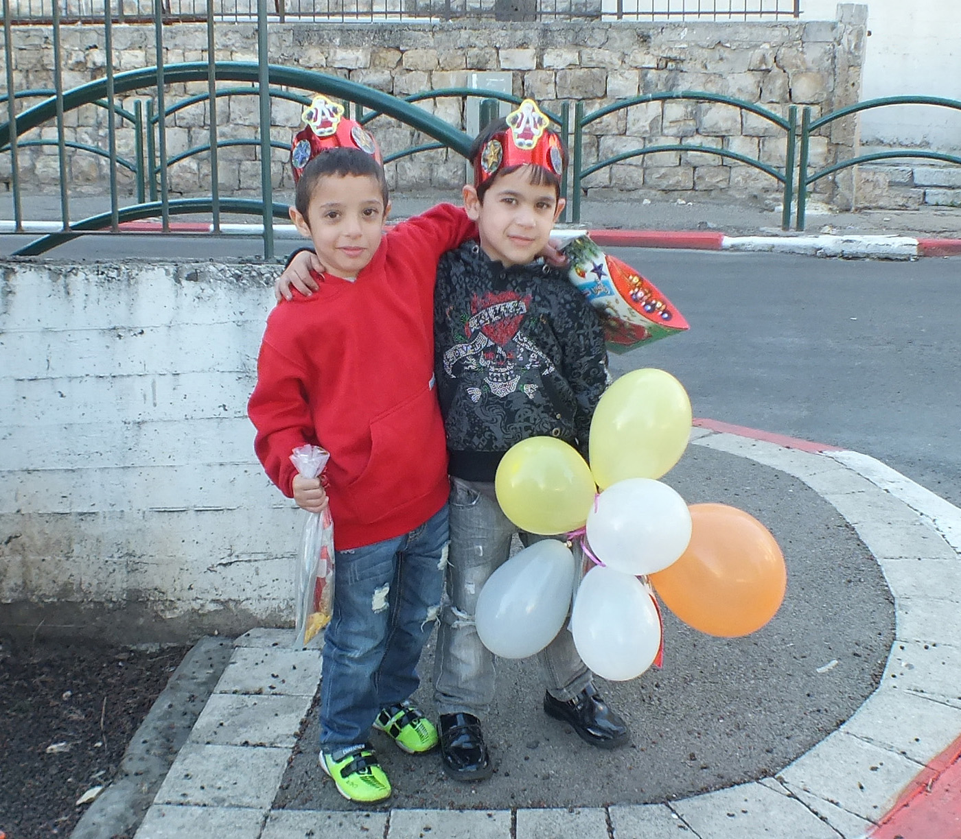 Ready for the holiday with festive headgears and bags of glittery ornaments provided today by the daycare staff, they've just stepped out of the kindergarten block with all their similarly adorned friends, each with respective mom walking them serenely to near-by homes. Kids registered for that kindergarten, on the seam-line of Downtown Haifa and eastern Hadar, aren't necessarily from Christian families; in this particular neighbourhood, in fact, the Arab population is rather quite overwhelmingly Muslim -- however, Christian–Muslim differences are traditionally effaced in daily life of the Arabs in Israel or at least not emphasized, all in favour of a trans-religious solidarity, practised in a great variety of circumstances among the major ethnic minority in the Jewish country. Certainly at this early age, few social frames and networks exist as Muslim or Christian apart; leaders, educators and ordinary citizens alike comply however with the unofficial public need to forge a unified, trans-sect, "national" collective to work against what is perceived as the Israeli hegemony -- which demands an ability to internally agree more than disagree, and bridge over gaps that are generally unbridged elsewhere in the Arab World.